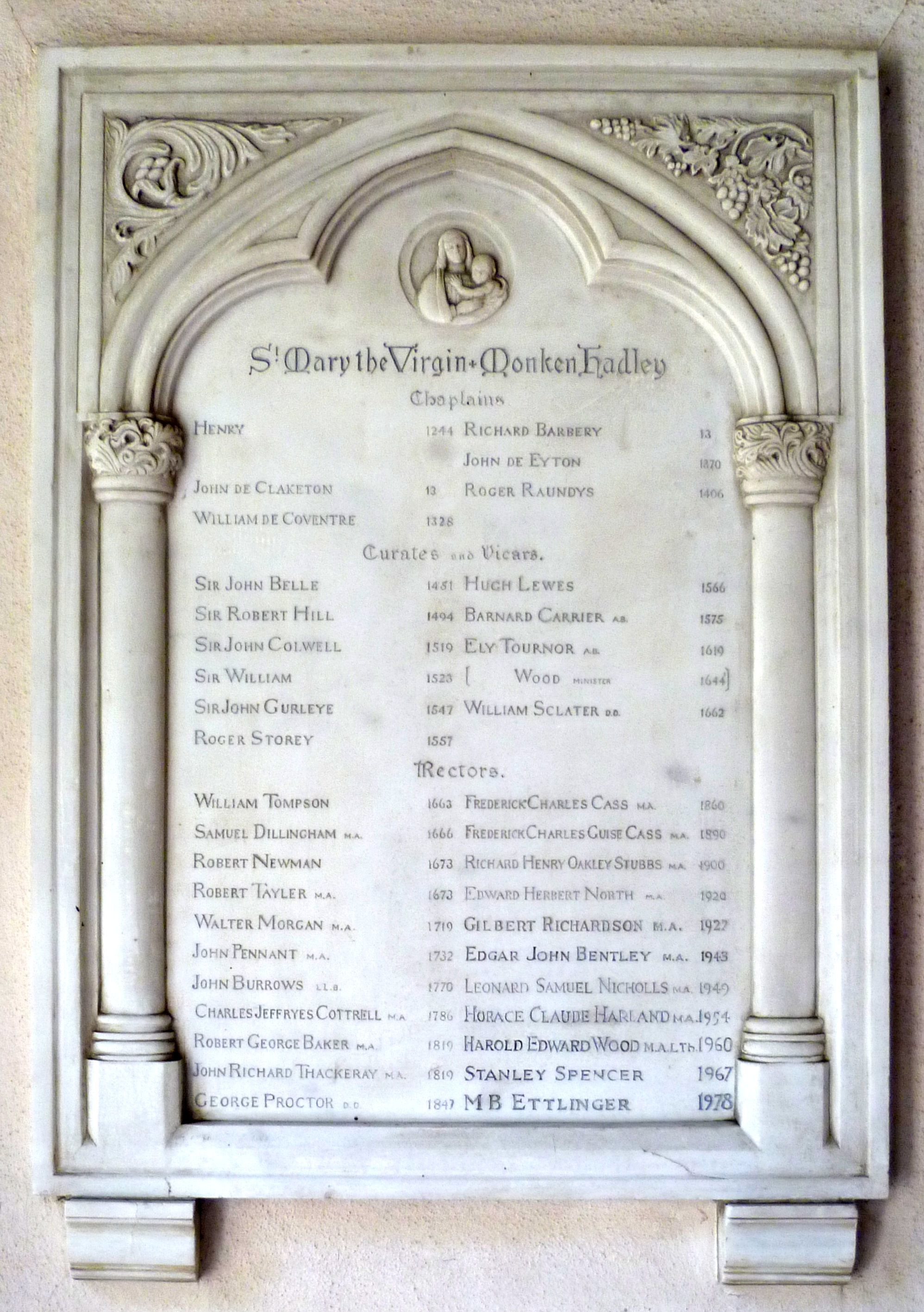 St Mary, Monken Hadley - plaque (cropped)